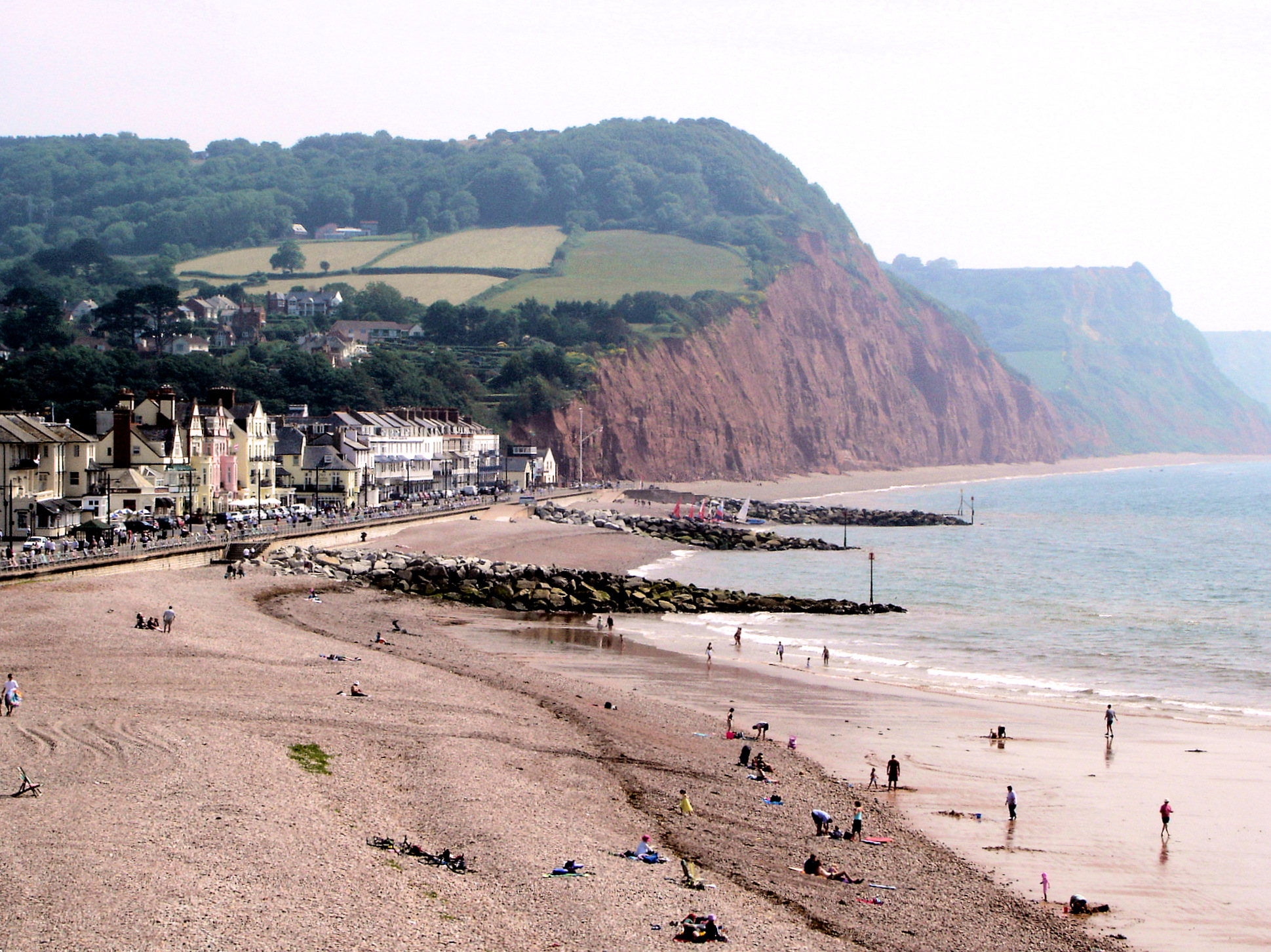 Sidmouth Beach